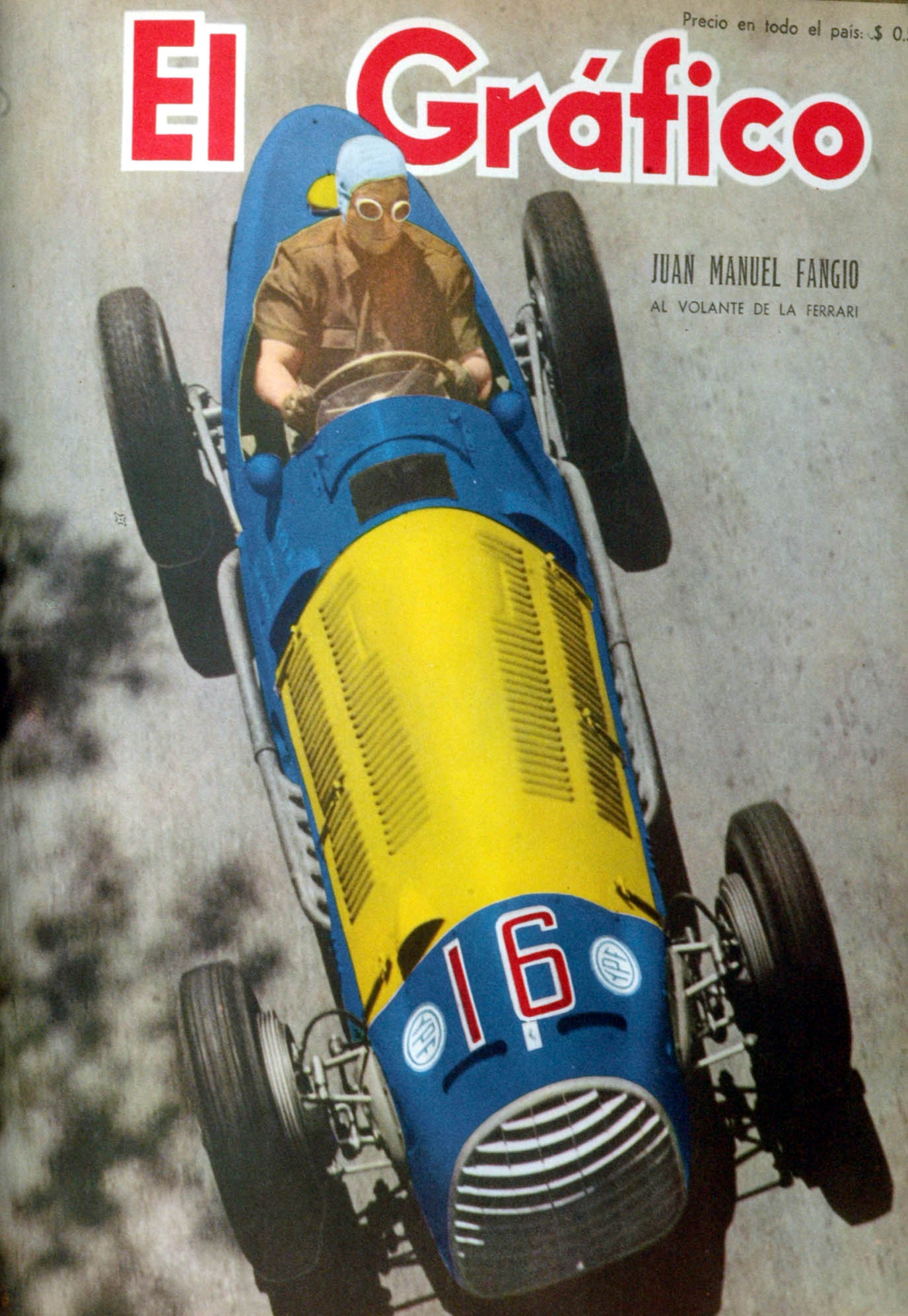 Ferrari 166 FL s/n 011F ("FL"=Formula Libre, free class),[1] here as entry #16 driven by Juan Manuel Fangio to a 4th place in the Buenos Aires Grand Prix at Circuito Palermo on 8 May 1950 (=IV Gran Premio Eva Perón y de la Ciudad de Buenos Aires)[2]